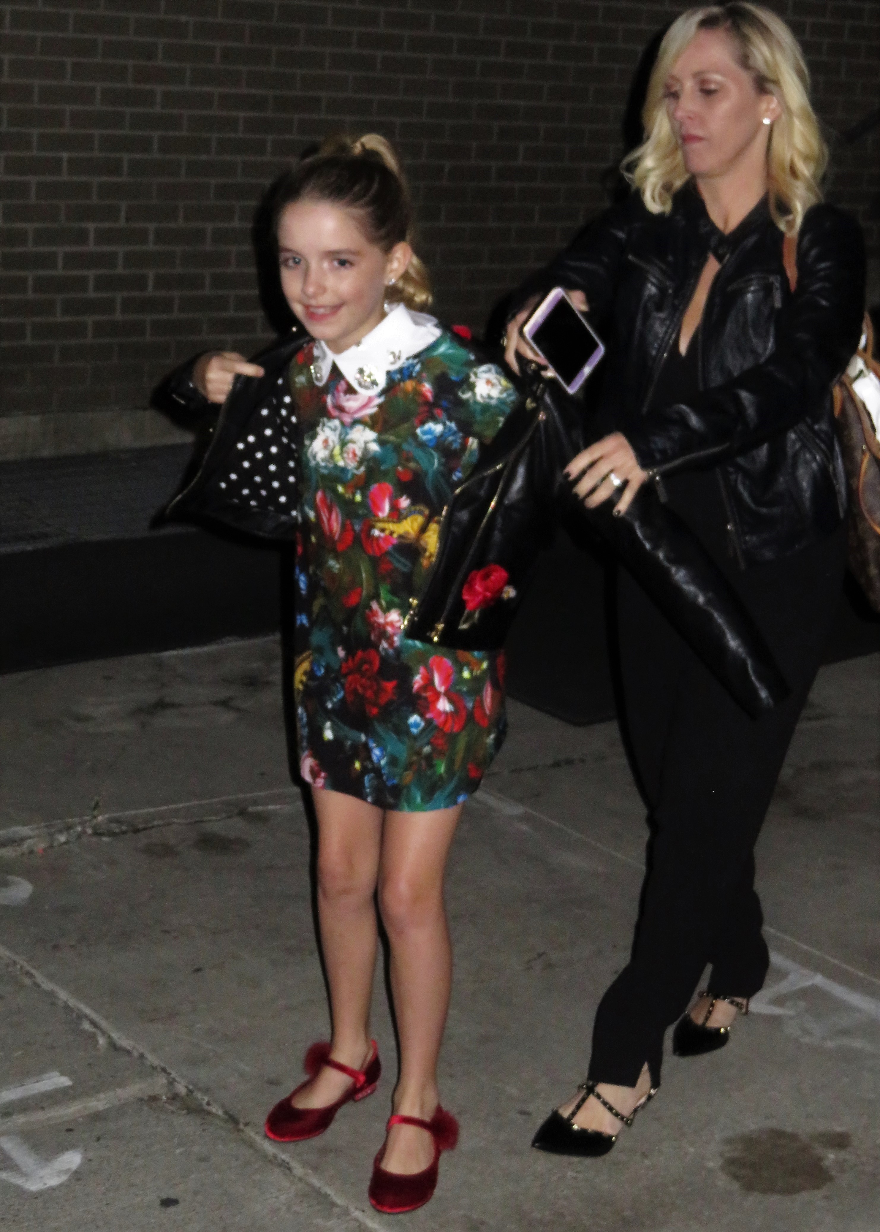 McKenna Grace at the premiere of I Tonya, 2017 Toronto Film Festival